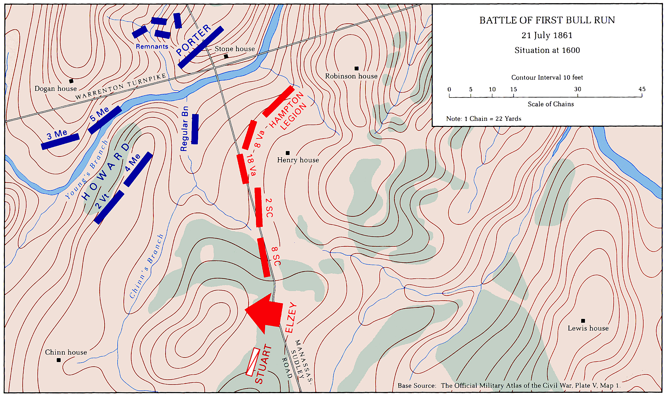 First Battle of Bull Run (July 21, 1861). Situation at 16:00 (July 21, 1861).